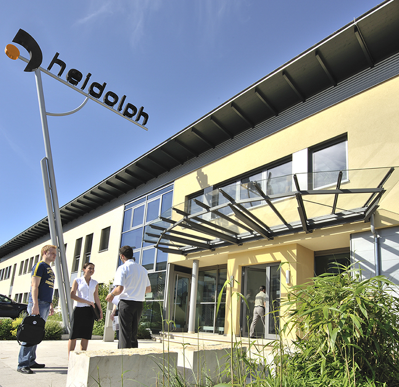 Day_of_Heidolph